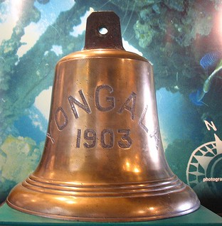 The bell from SS Yongala at the Towsville Maritime Museum (photograph notice is on the image behind the bell - not a watermark)